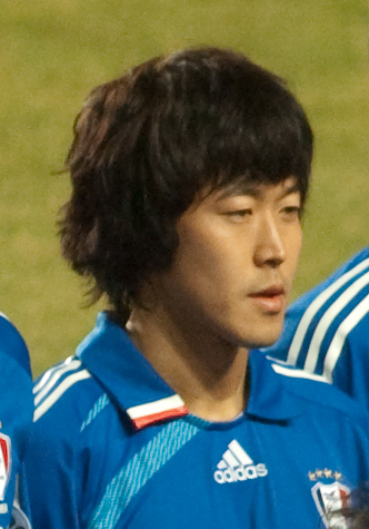 AFC Champions League 2009 Squad of Suwon Samsung Bluewings at 11 Mar 2009 against Kashima Antlers of J-League.